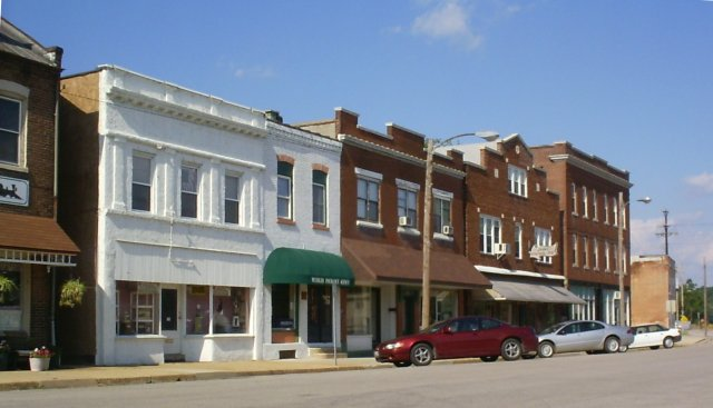 Subject: Part of historic downtown in Pacific, Missouri, along St. Louis Street. Source: This image was taken on July 31, 2004, by Kbh3rd expressly for use by Wikipedia.